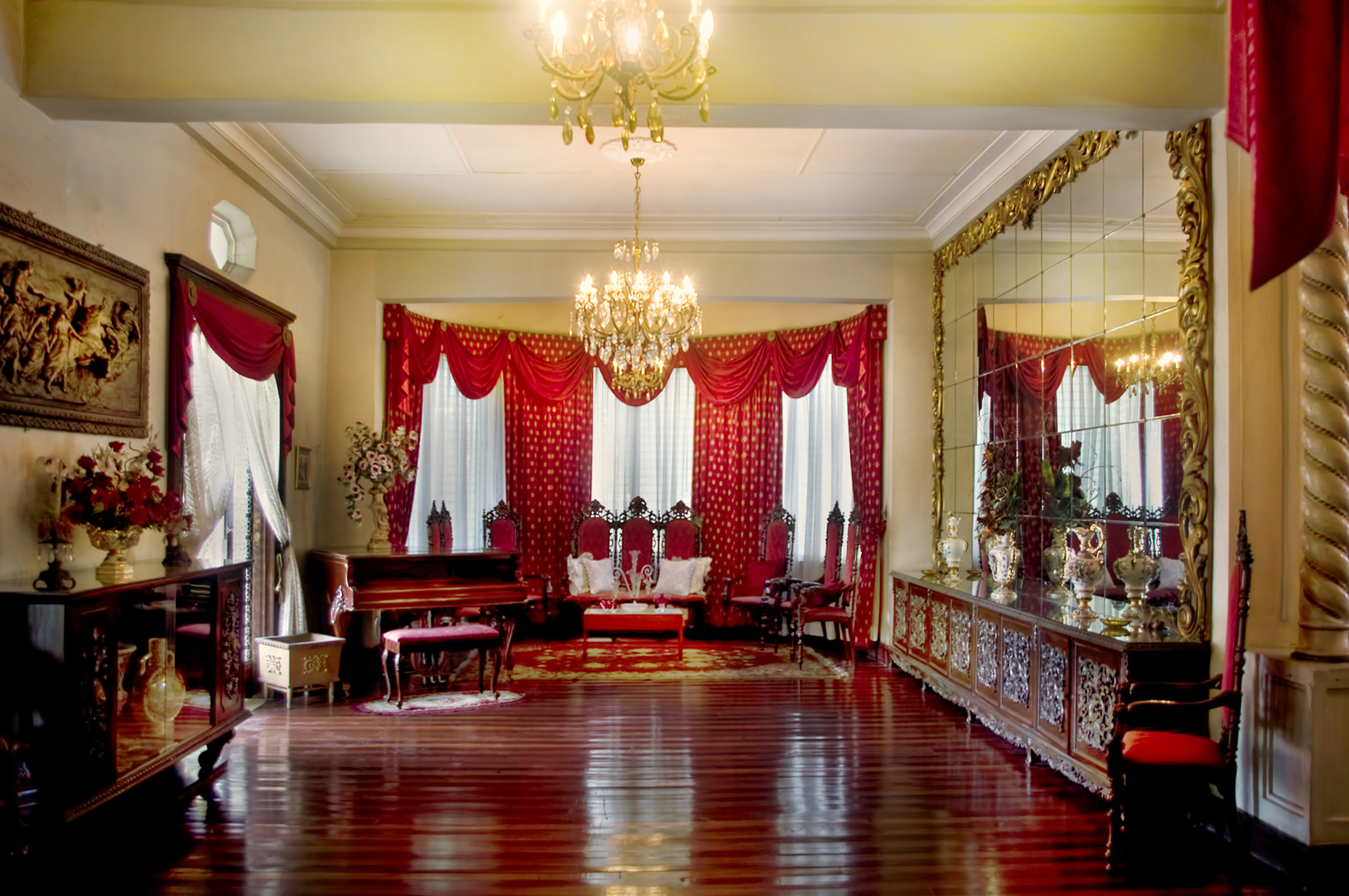 The Living area of Gala-Rodriguez house, first floor